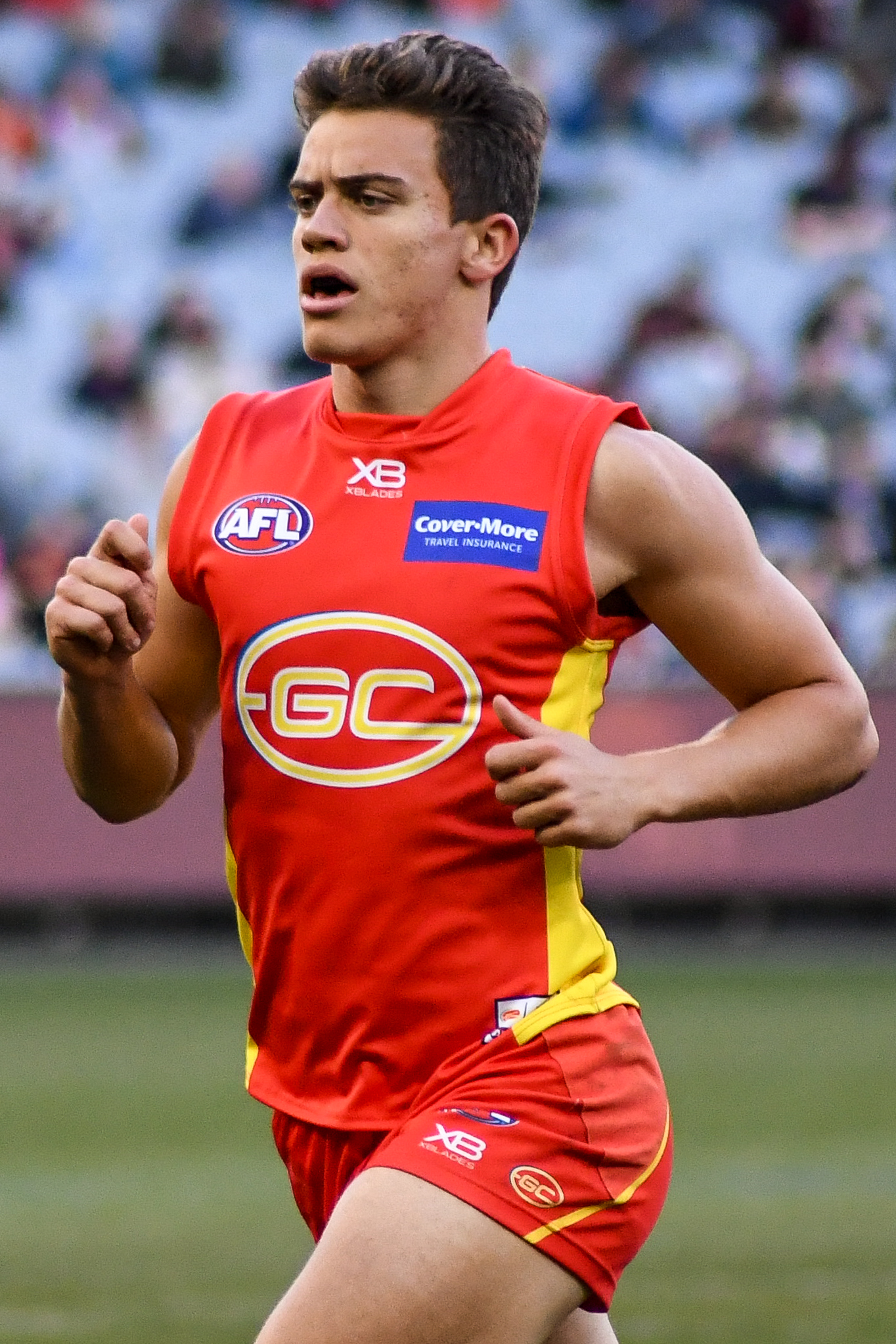 Jacob Heron of Gold Coast during the 2018 AFL round 20 match between Melbourne and Gold Coast at the Melbourne Cricket Ground on Sunday, 5 August 2018 in Melbourne, Victoria.